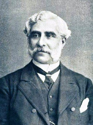 HHBemrose Sir Henry Howe Bemrose (19 November 1827 – 4 May 1911) was a printer and publisher, as well as Mayor of Derby